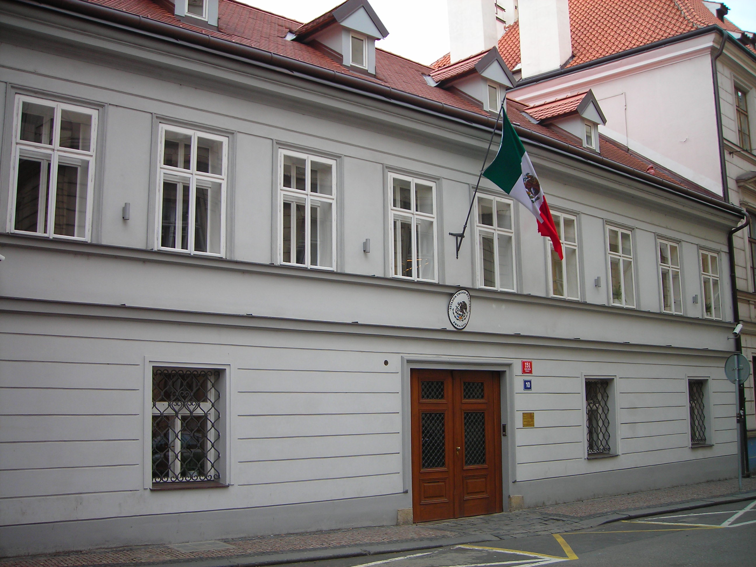 Embassy of the United Mexican States in the Czech Republic, Prague - New Address for Chancery Office - V Jirchářích 151.